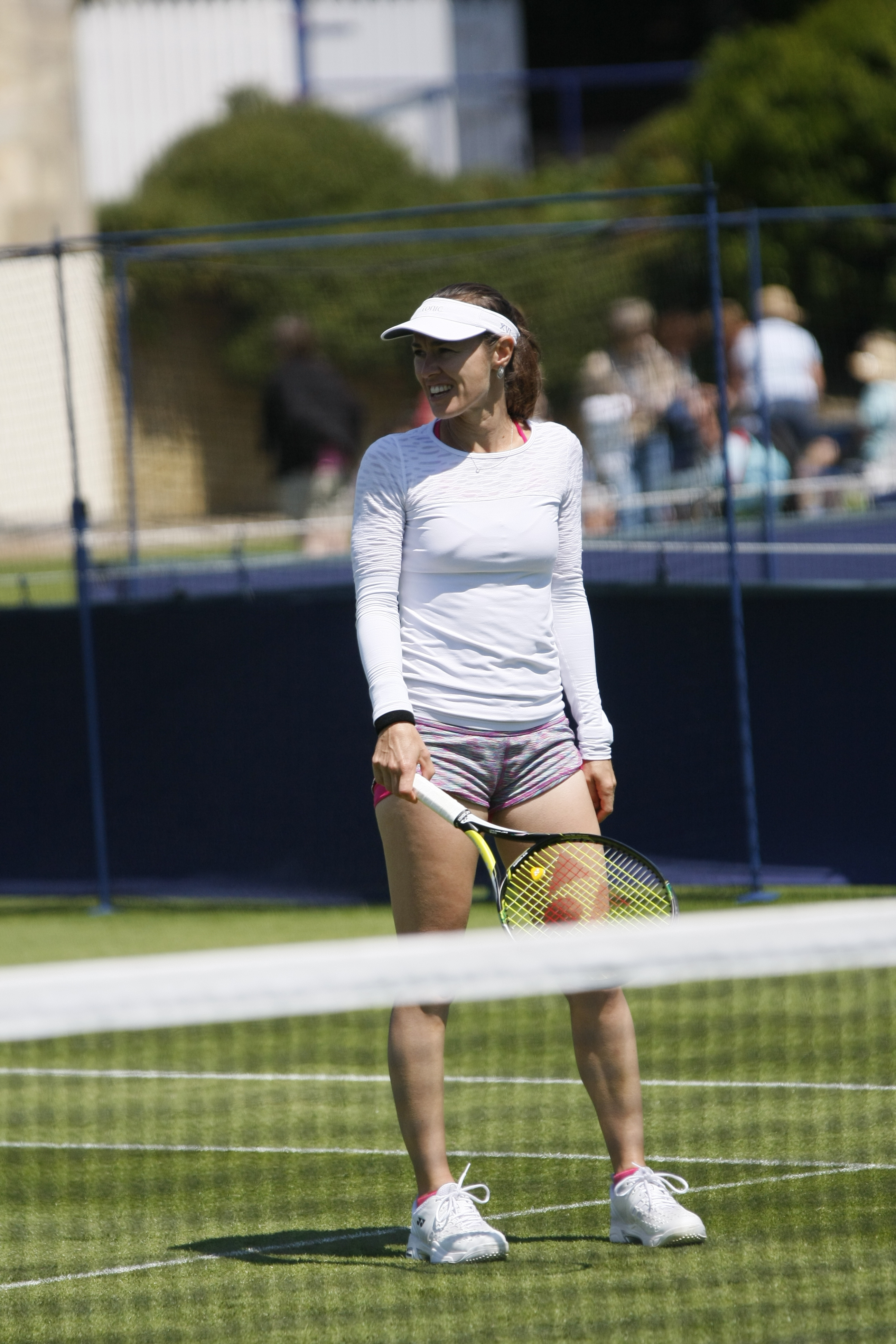 Aegon International Tennis, Devonshire Park, Eastbourne June 2015